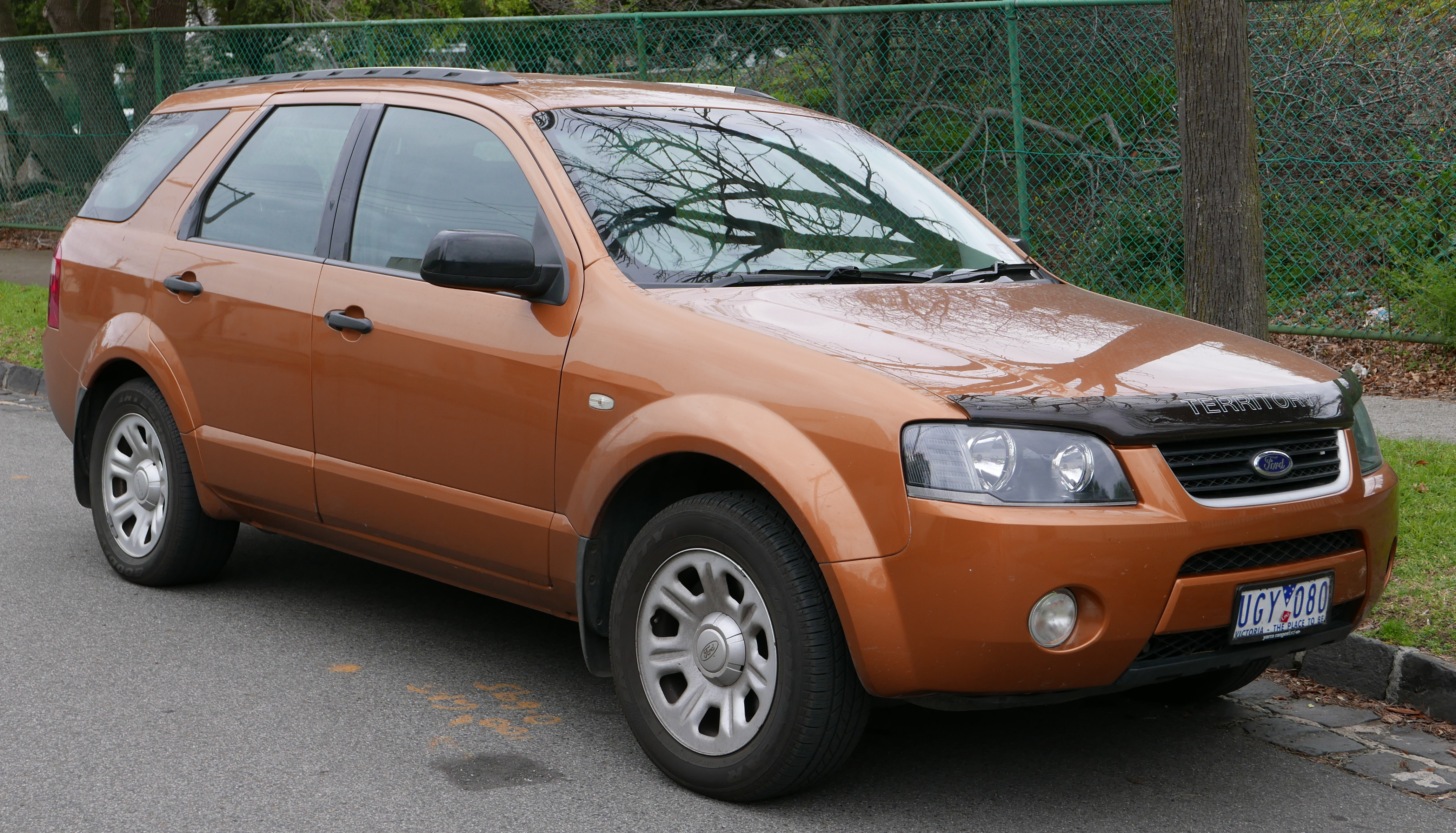 2006 Ford Territory (SY) TX RWD wagon. Photographed in Kew, Victoria, Australia. Vehicle registration enquiry resultsJurisdictionVictoriaRegistrationUGY080Chassis code6FPAAAJGAT6J86541Engine codeJGAT6J86541Compliance date2006-05Year of manufacture2006